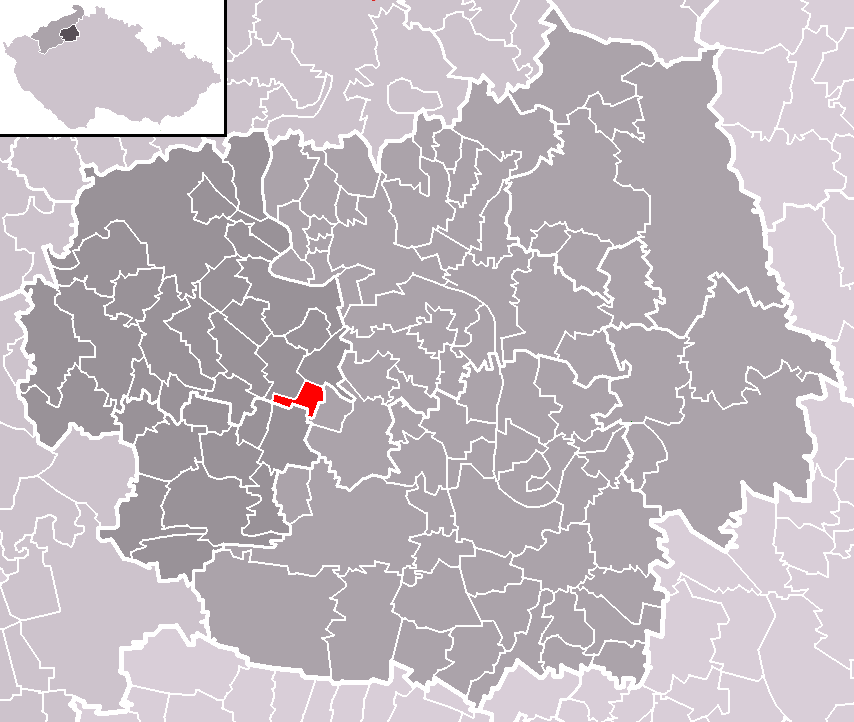 Location of Vrbičany municipality within Litoměřice District and administrative area of Lovosice as a Municipality with Extended Competence.